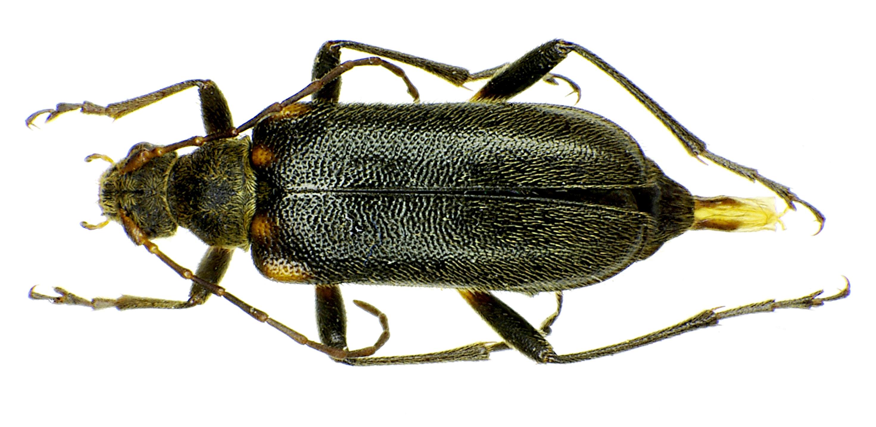 Cortodera humeralis from Hungary